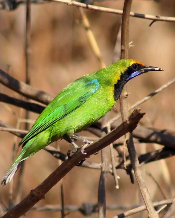 A golden fronted leafbird at the Sinhagad valley in Pune, India.